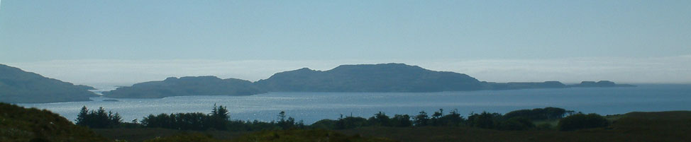 View of the Hebridean Island of Gometra from the Isle of Mull at a distance of about 5 miles. Gometra can be seen to be separated from the Isle of Ulva the mass of land at the left of this photo by a narrow sound which includes a tidal beach spanned by a bridge. Gometra is nearly 3 miles long from this bridge to the point to the right of the picture.